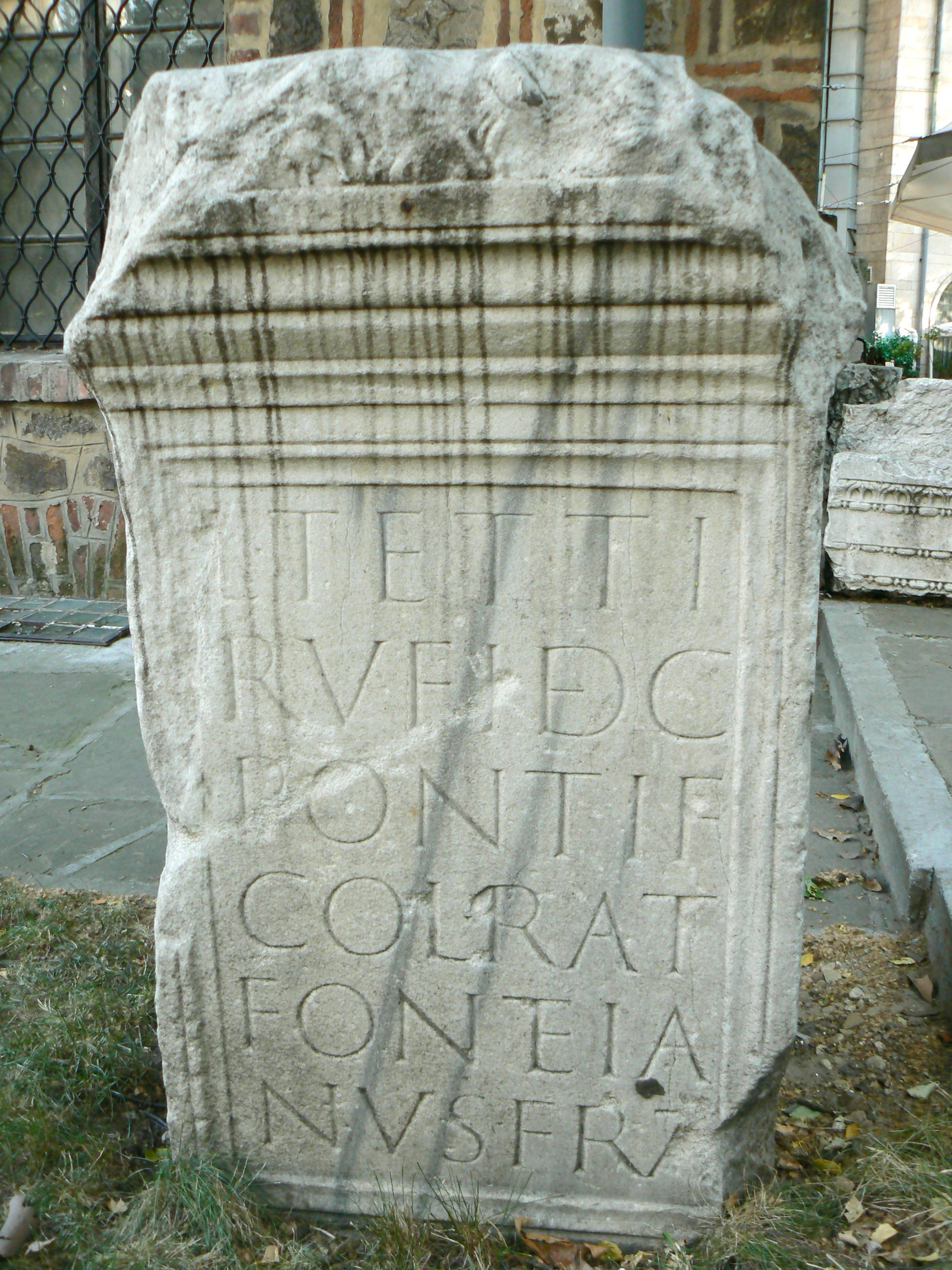 An exhibit in the Lapidarium in front of the National Archeological Museum in Sofia, Bulgaria